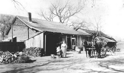 All photos used in this post were provided by the City of Pleasanton. This photo shows the Kroeger family (Peter and Henriette Kroeger, tenant farmers, and daughter Lena) in front of the Alviso adobe, circa 1900.